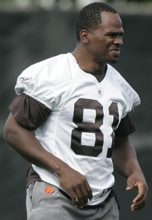 Browns WR David Patten and coach Dan Shamash at training camp in 2009 in Berea, Ohio.